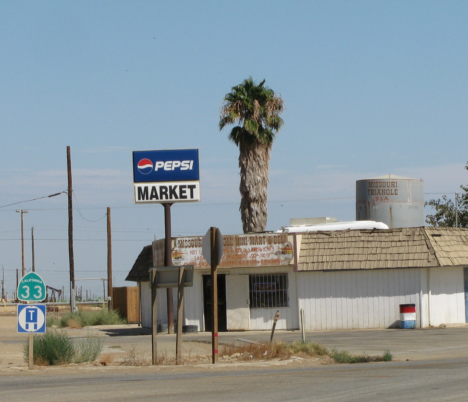 Missouri Triangle Mini-Mart and water tower (note the oil derrick next to the highway sign). Photo by self, August 23, 2009; GFDL/equiv.